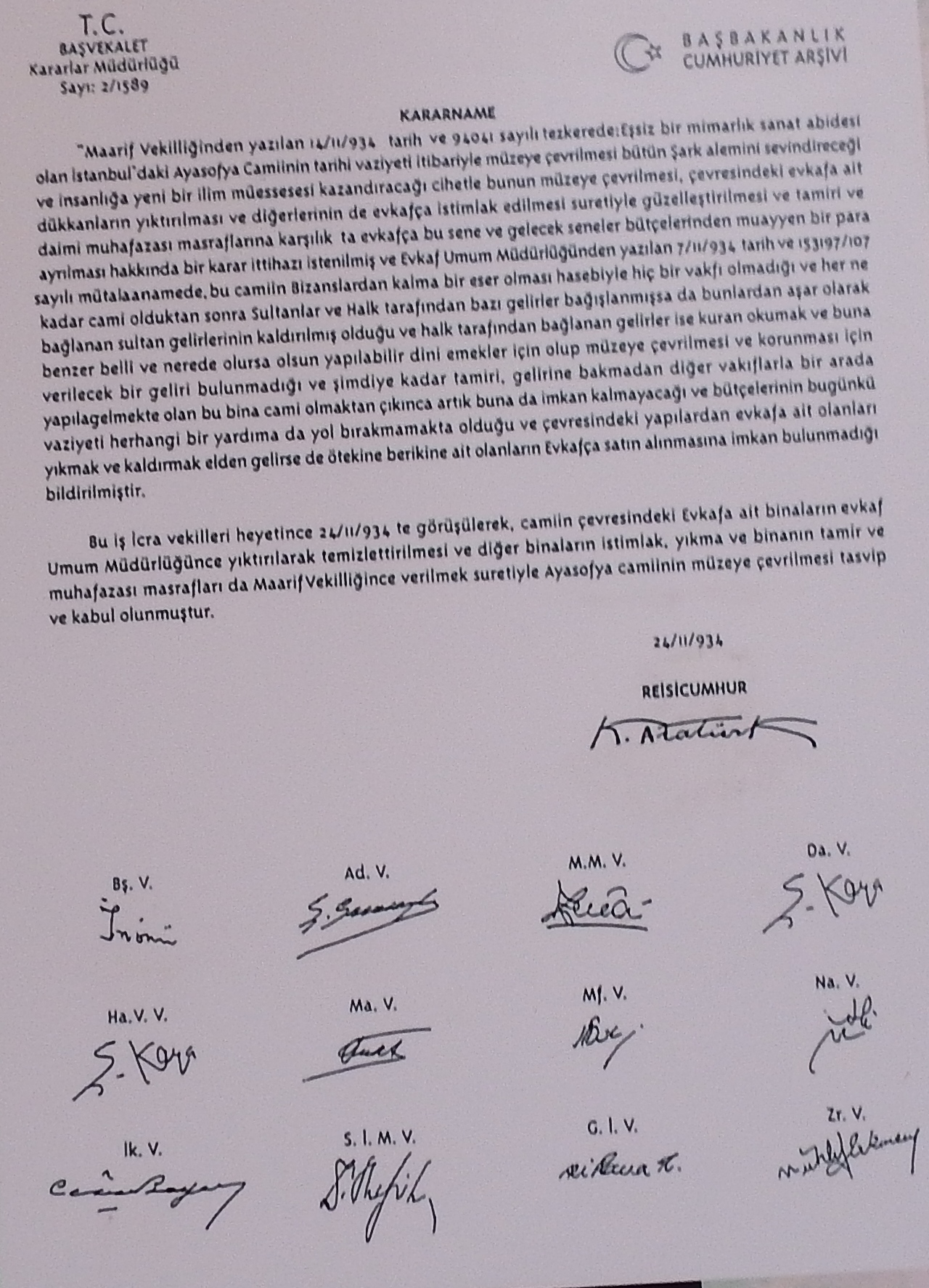 The decree of Turkish goverment about the museum Hagia Sophia